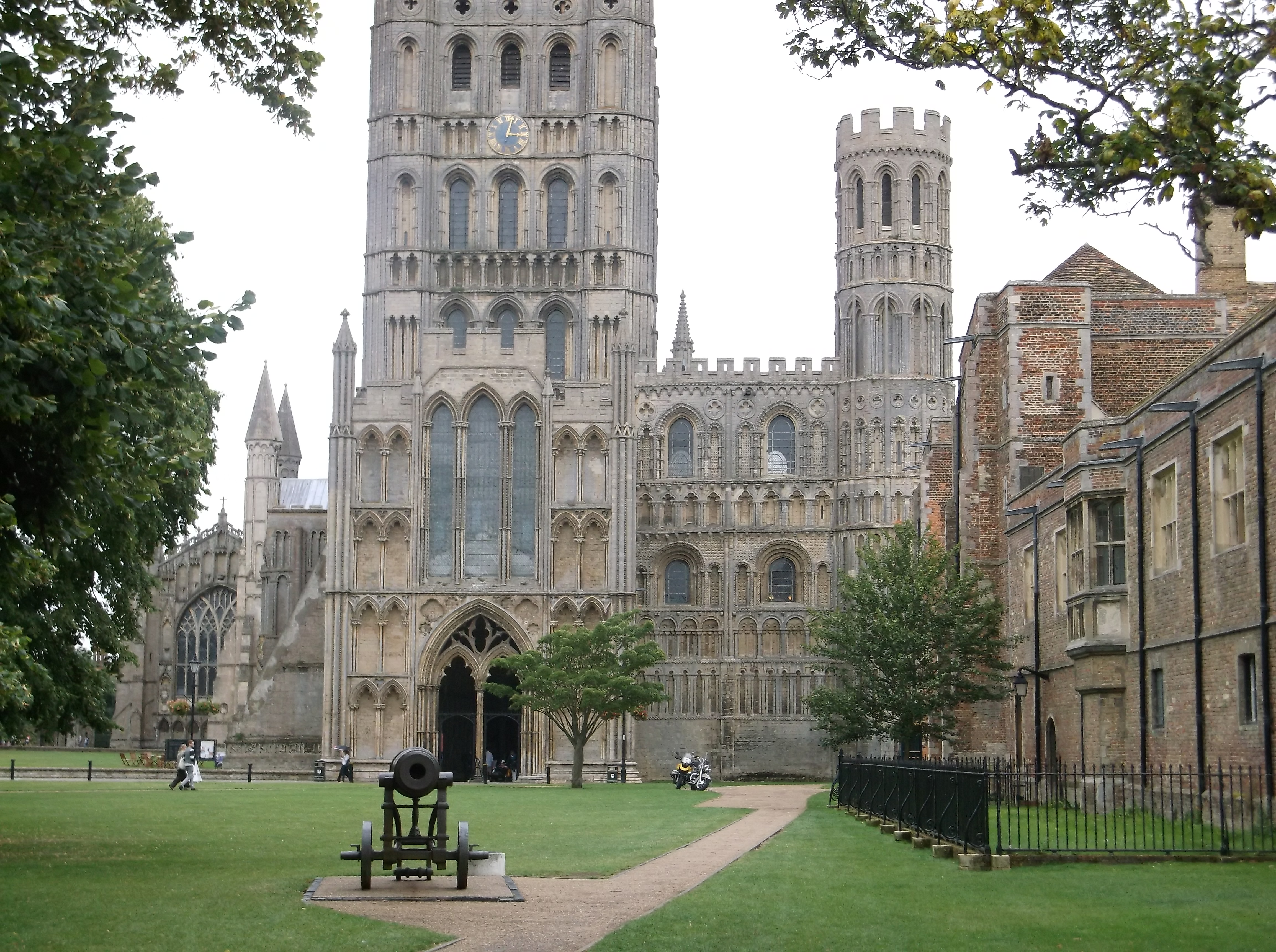 Ely Cathedral (Cathedral of the Holy Trinity)